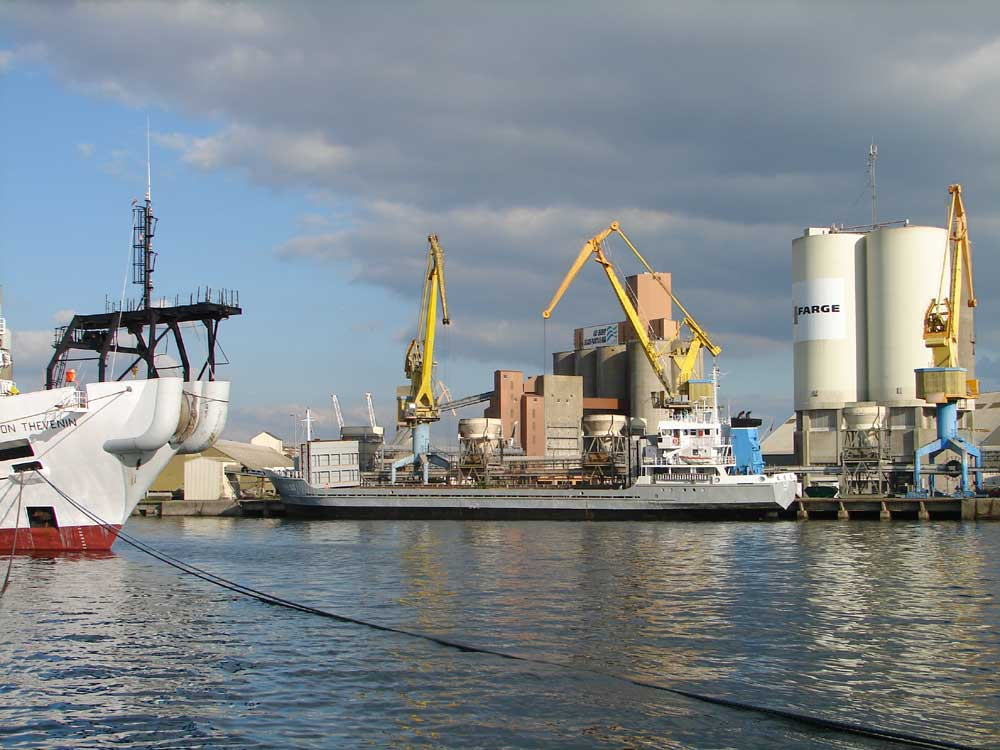 The general cargo ship Velox (85.75 m, 3,502 DWT) unloading rapeseed in Brest. The bow of the cable layer Leon Thevenin (IMO number 8108676) at left.